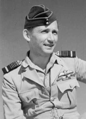 Photograph of Air Chief Marshal Tedder